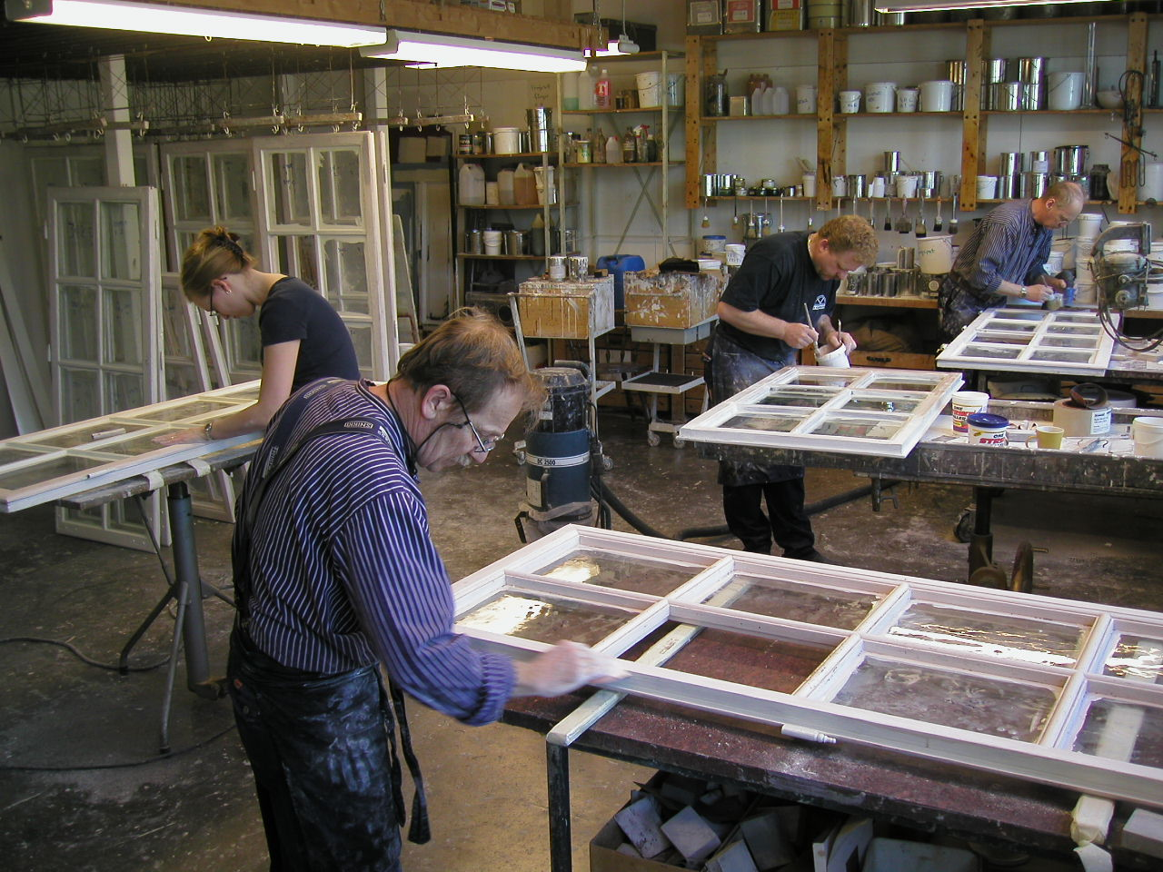 Windowcraft training course in 2004 in Ystad